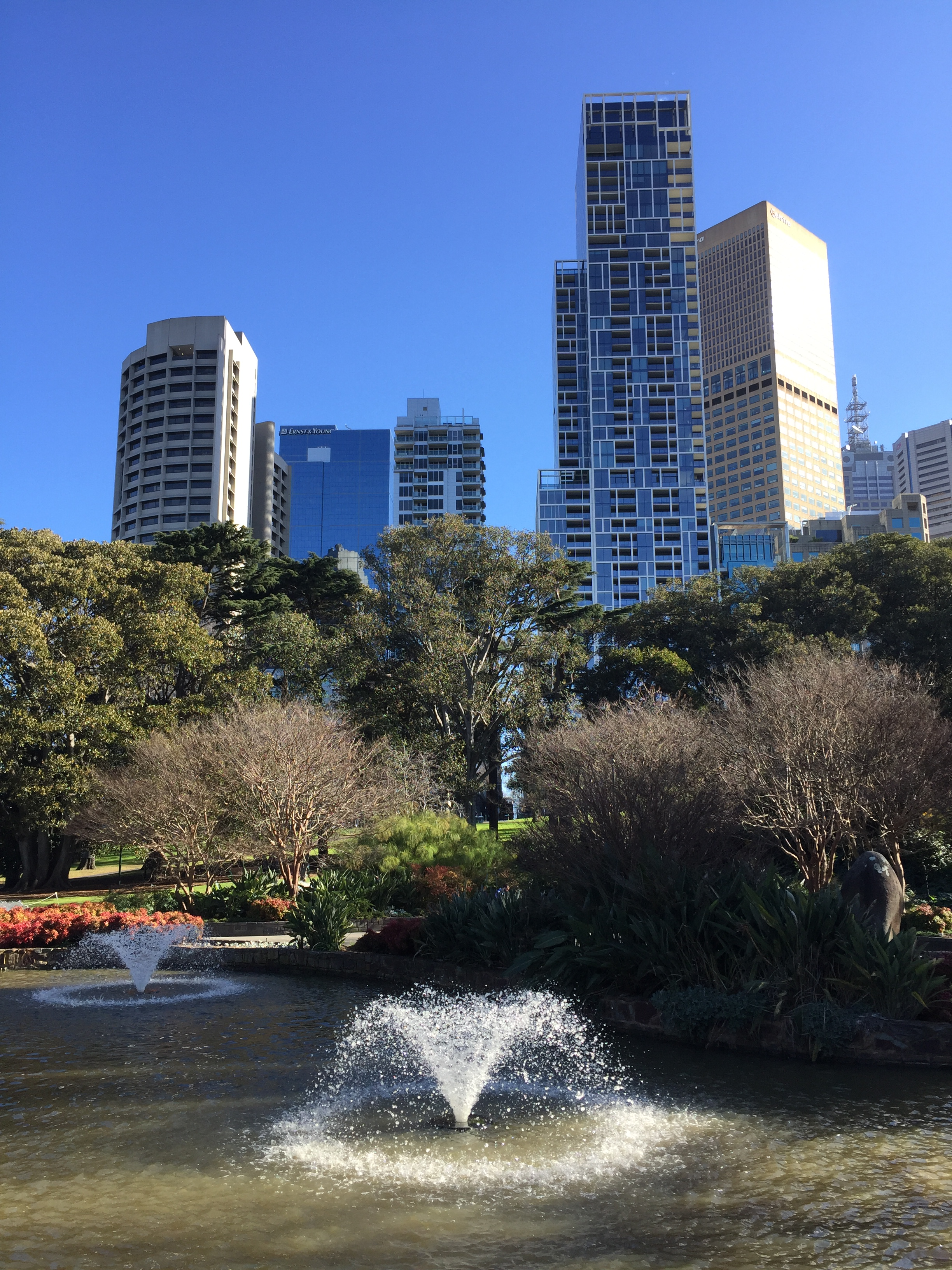 Melbourne is well known as Garden City